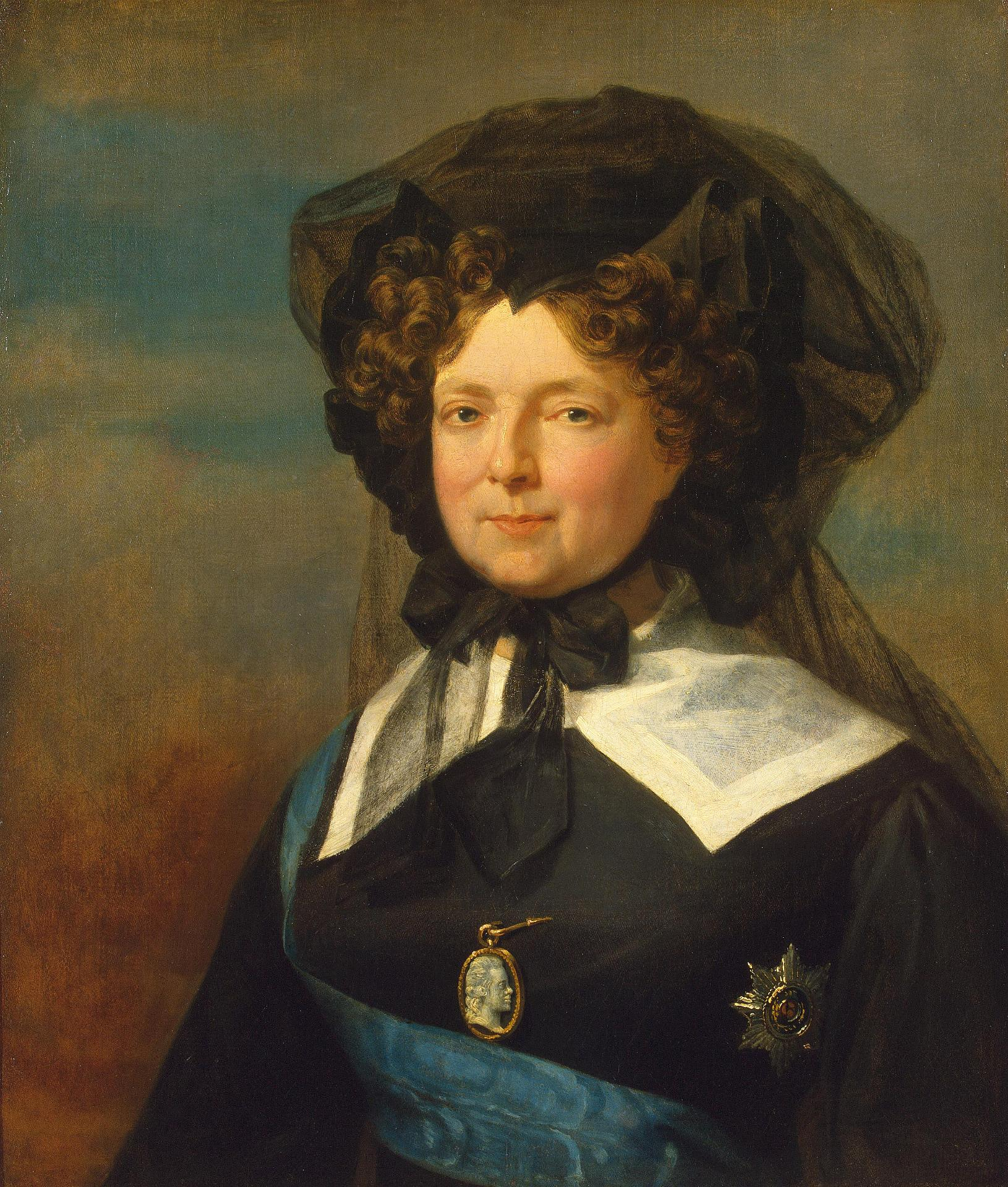 Portrait of Maria Feodorovna (1759-1828)